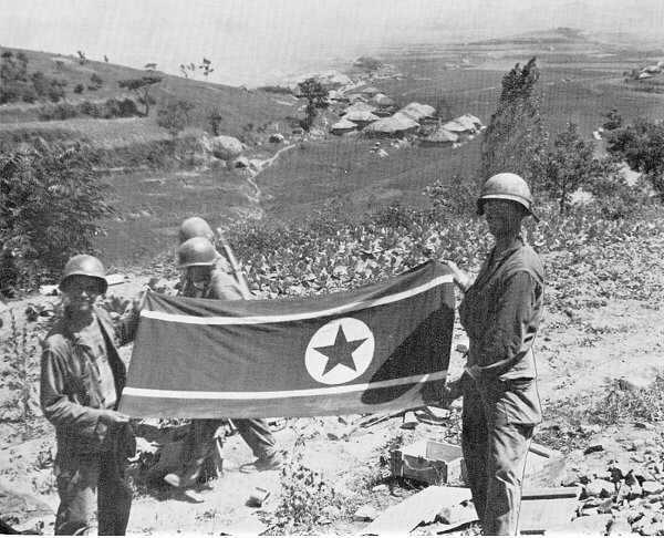 Men of the US 35th Infantry display a North Korean flag captured during the Battle of Masan in September, 1950